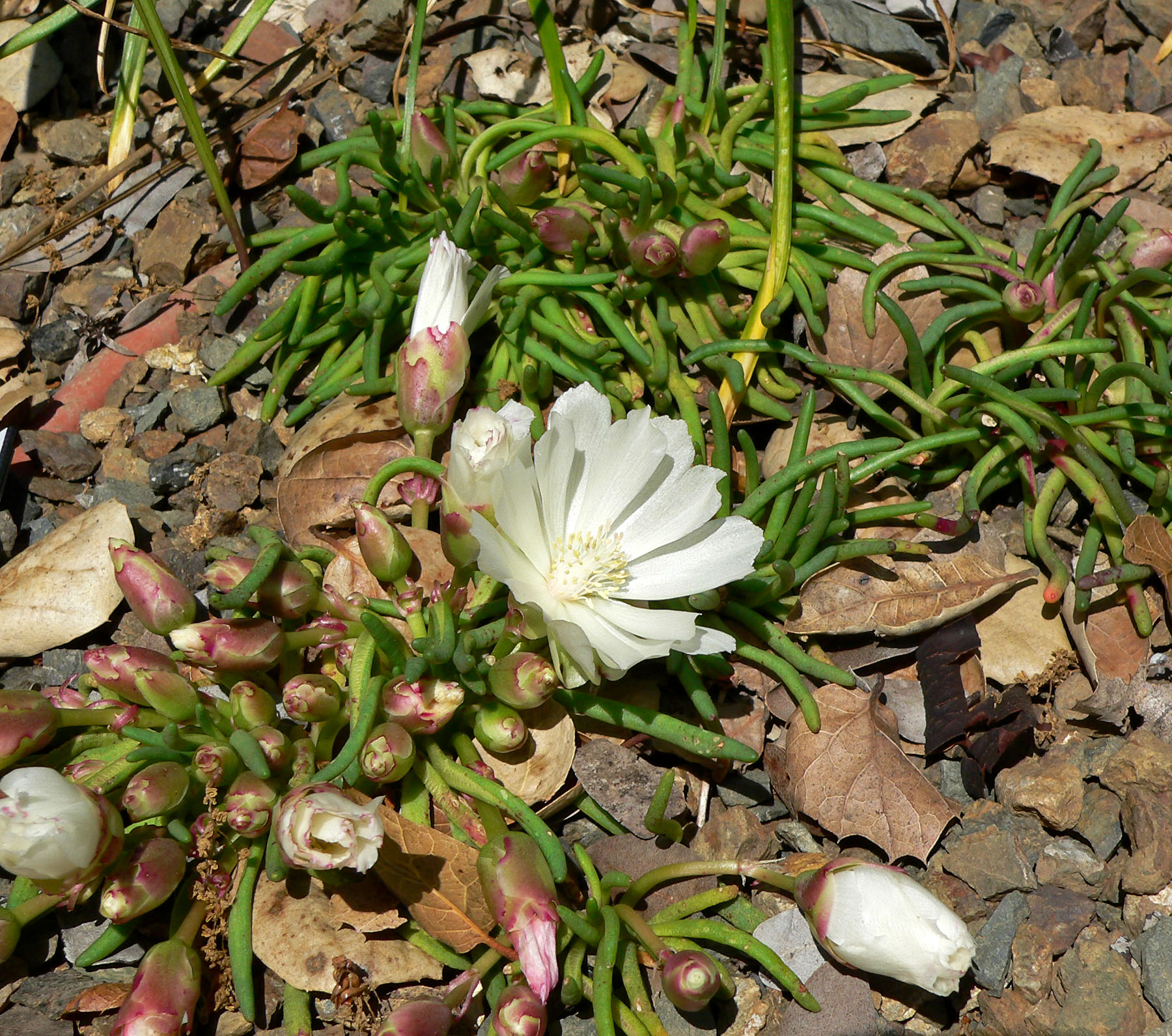 Lewisia rediviva at the University of California Botanical Garden, Berkeley, California